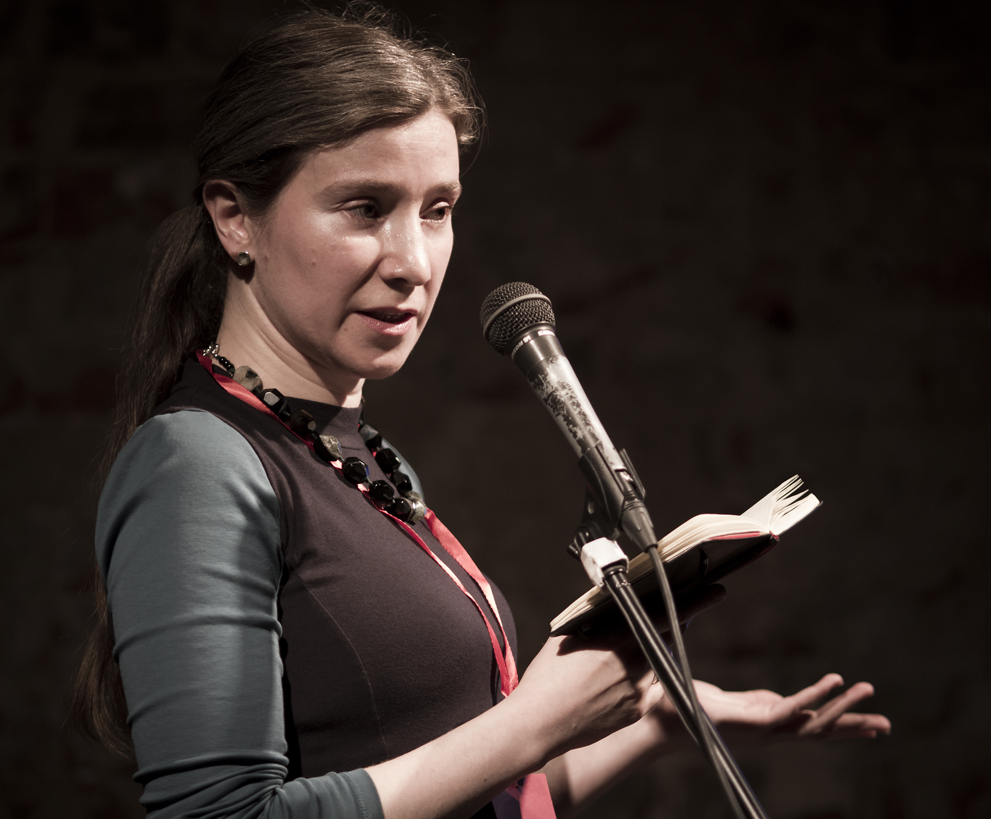 Ekaterina Schulmann (Russian political scientist specializing in the Russian legislative process, Ph.D. in political science and is a senior lecturer at the Russian Presidential Academy of National Economy and Public Administration) giving lecture in Sakharov Center. June 23, 2017.